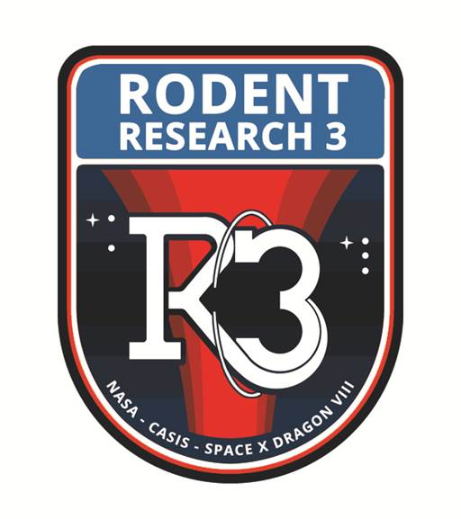 This is the NASA mission patch for the Rodent Research-3 Experiment.